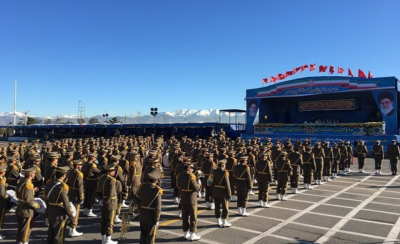 Iran Army parade in 29 Farvardin (17 April).